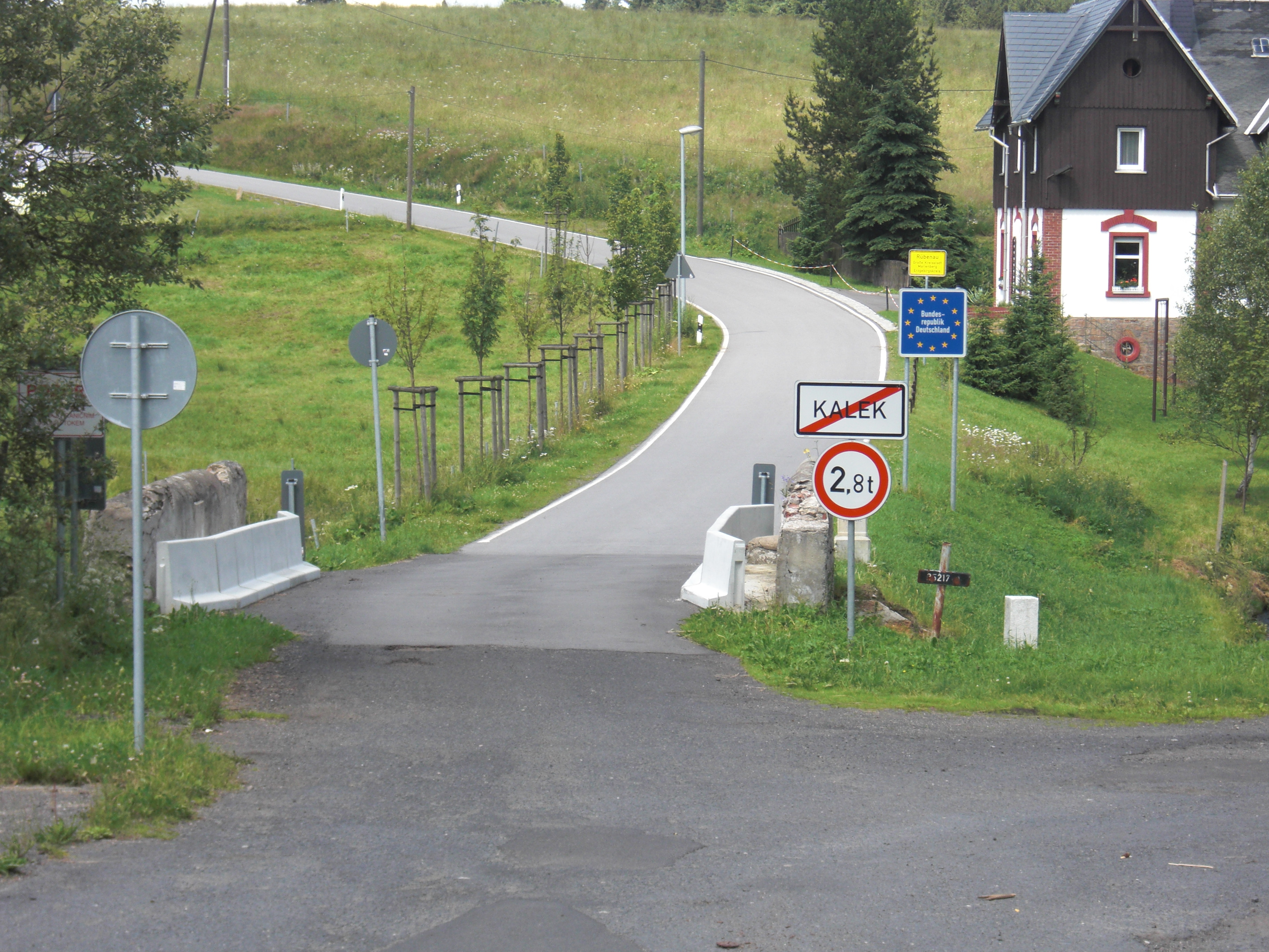 Border crossing